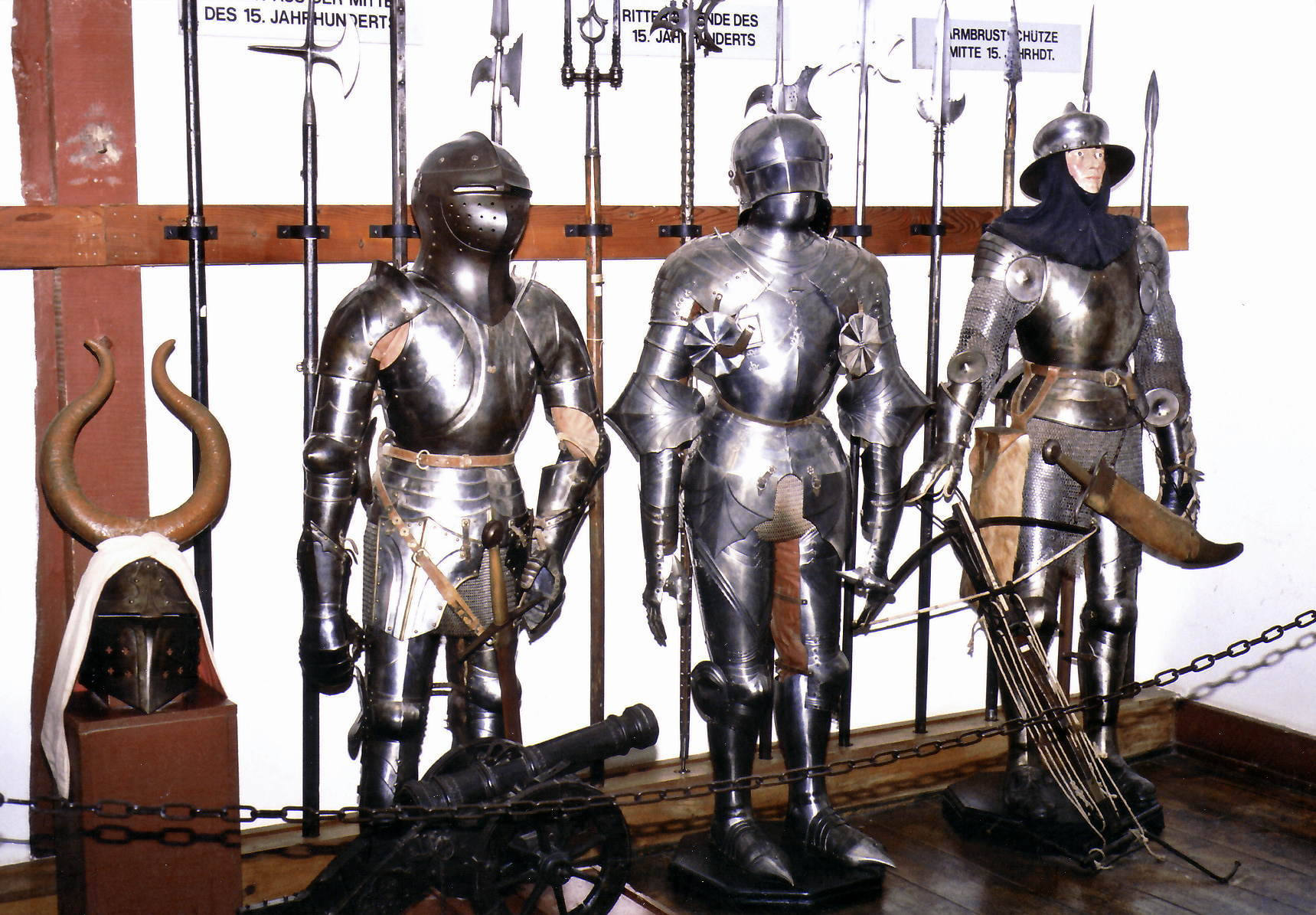 Marksburg, armoury